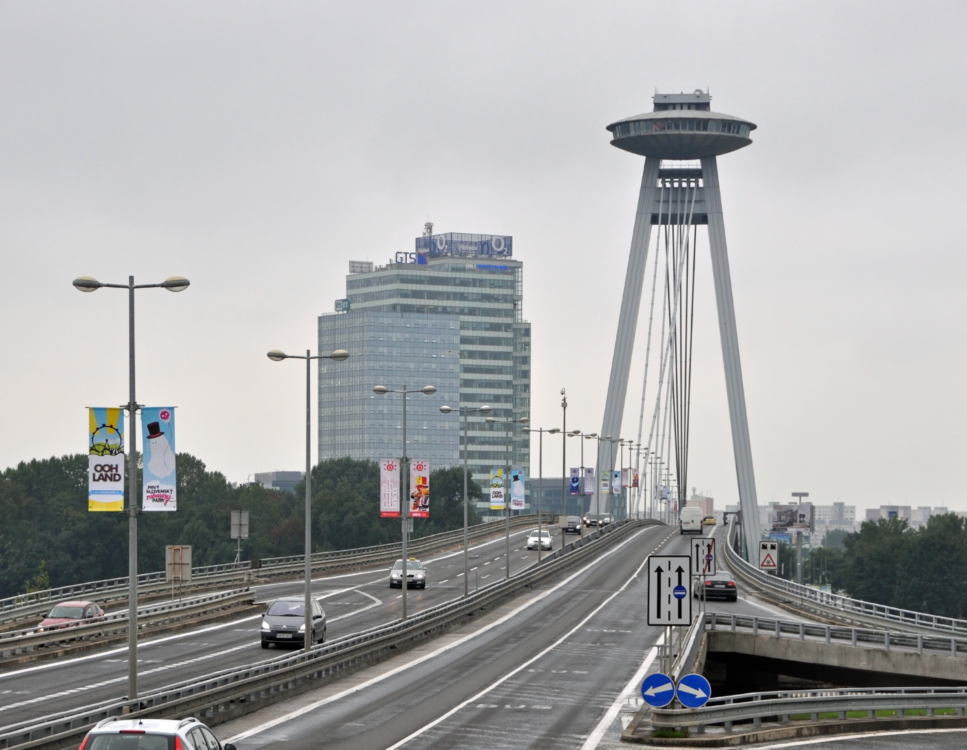 Bratislava (Slovakia): Nový Most ("New Bridge")